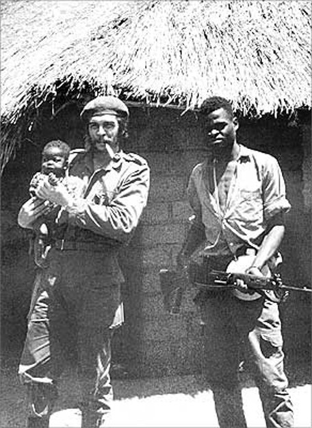 Che Guevara while participating in an guerrilla insurgency in the Congo in 1965.